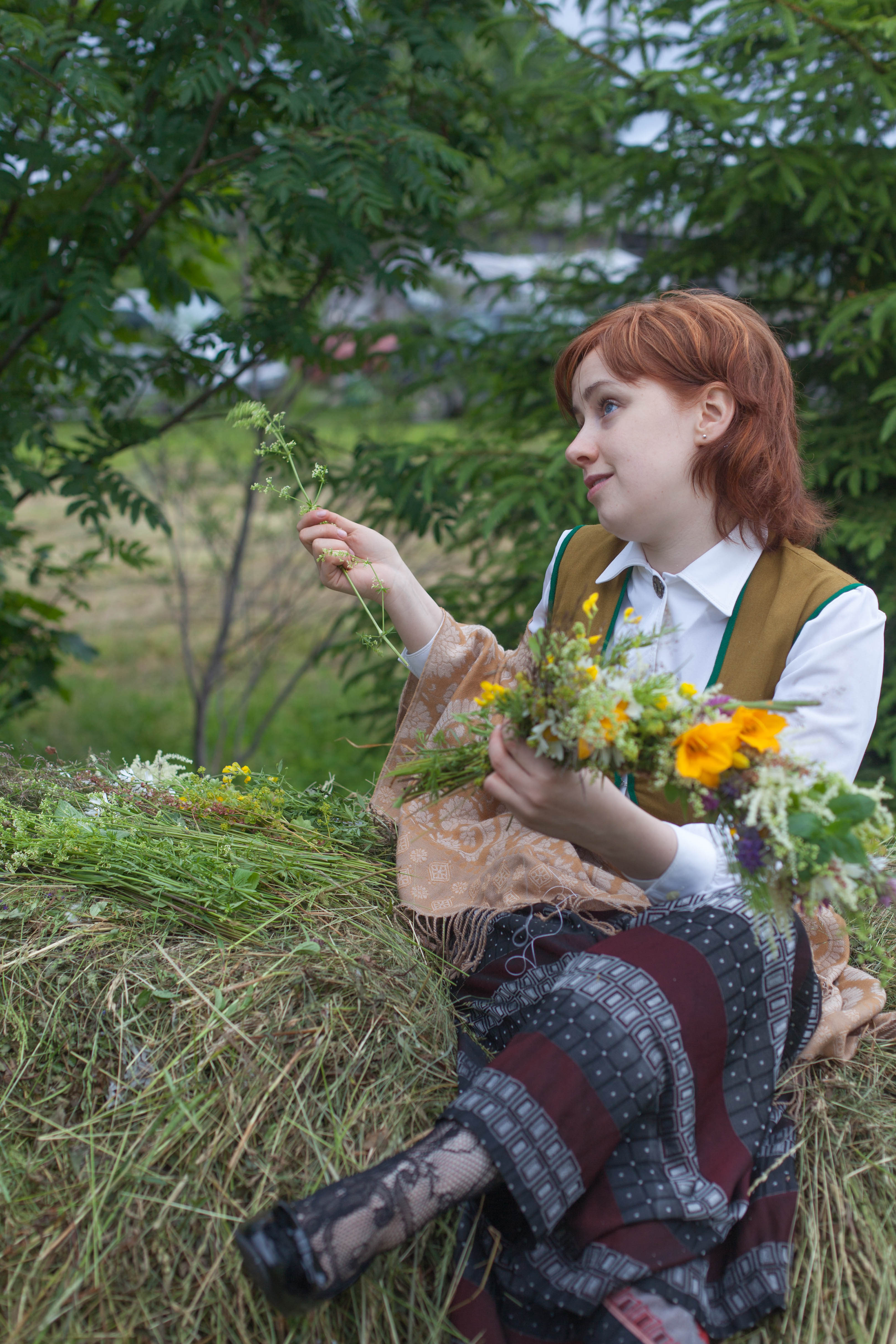 flower crown at midsummer festival